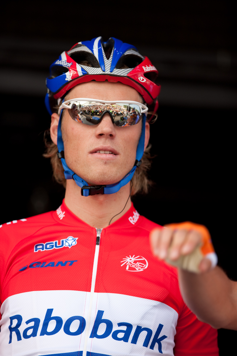 Lars Boom, Eschborn-Frankfurt City Loop 2009